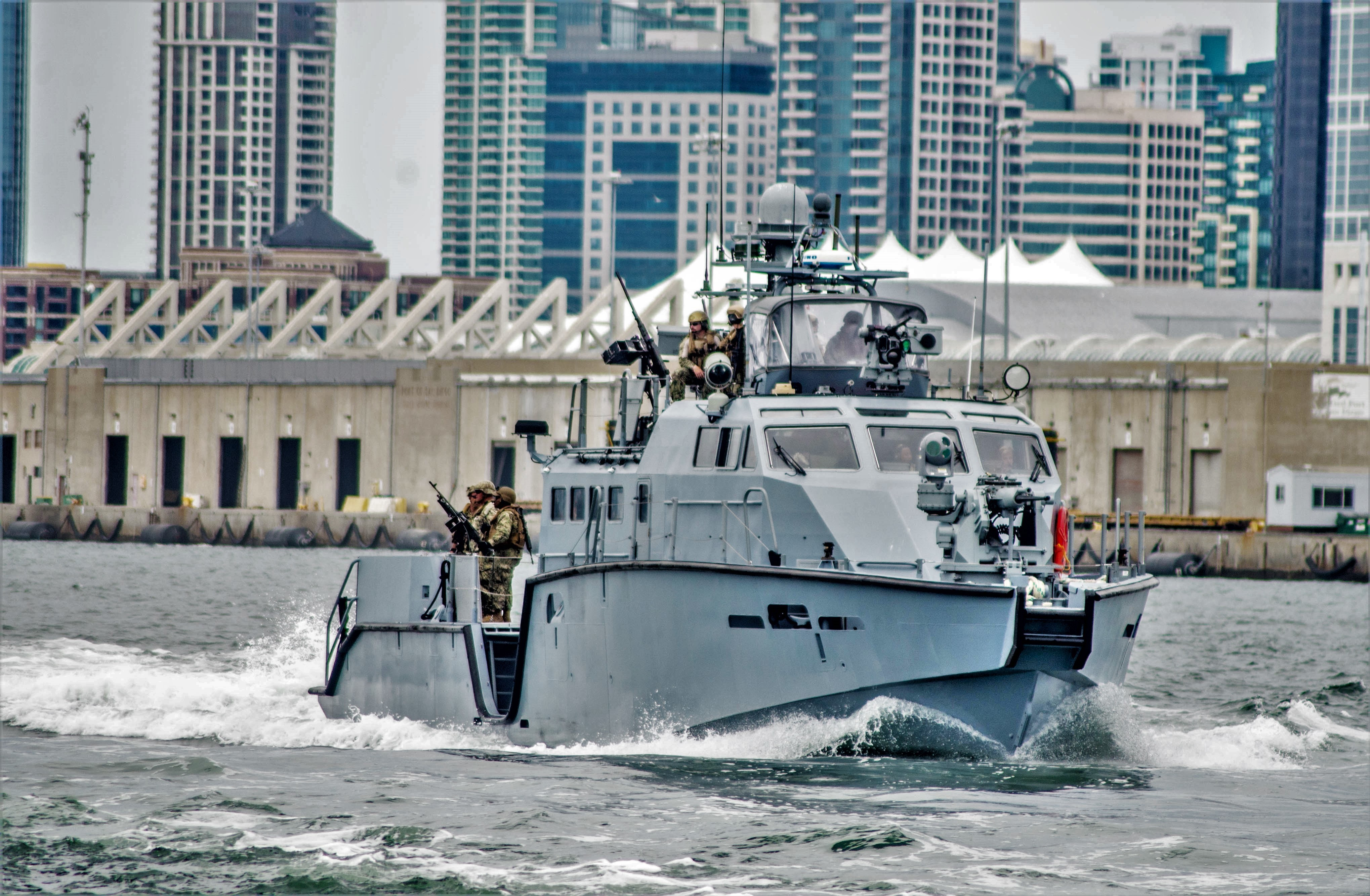 SAN DIEGO (June 20, 2019) Sailors assigned to Coastal Riverine Squadron (CRS) 3, are underway aboard a MKVI patrol boat during unit level training provided by Coastal Riverine Group (CRG) 1 Training and Evaluation Unit.